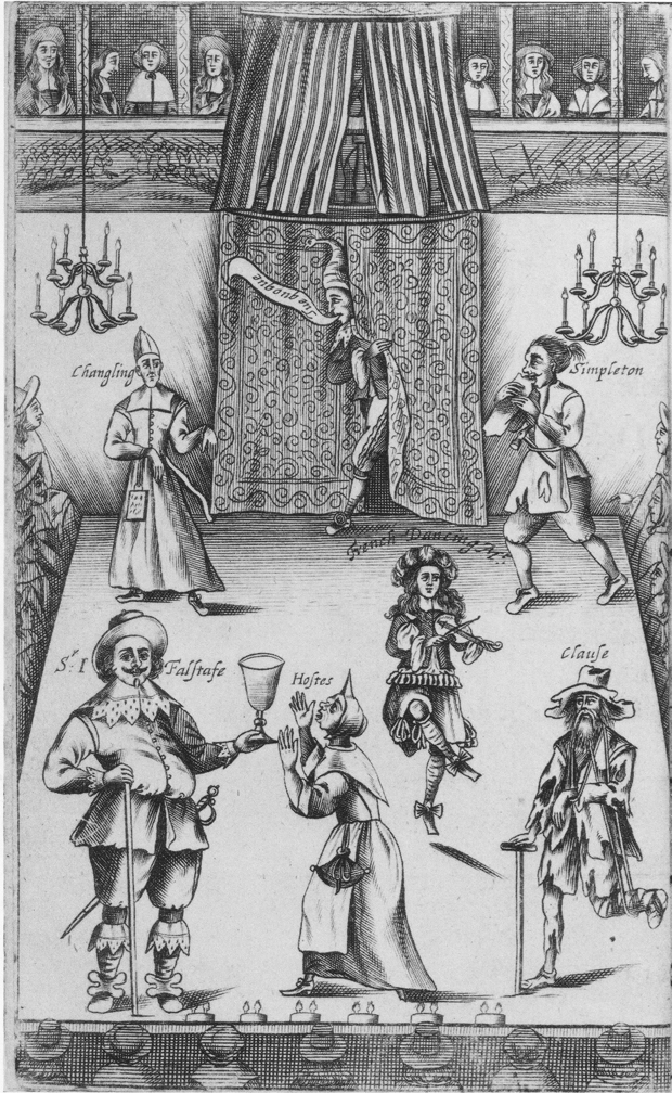 Image from frontispiece to The Wits, showing theatrical drolls (characters taken from different Jacobean plays, including Shakespeare, played together) in Restoration Theatre in England